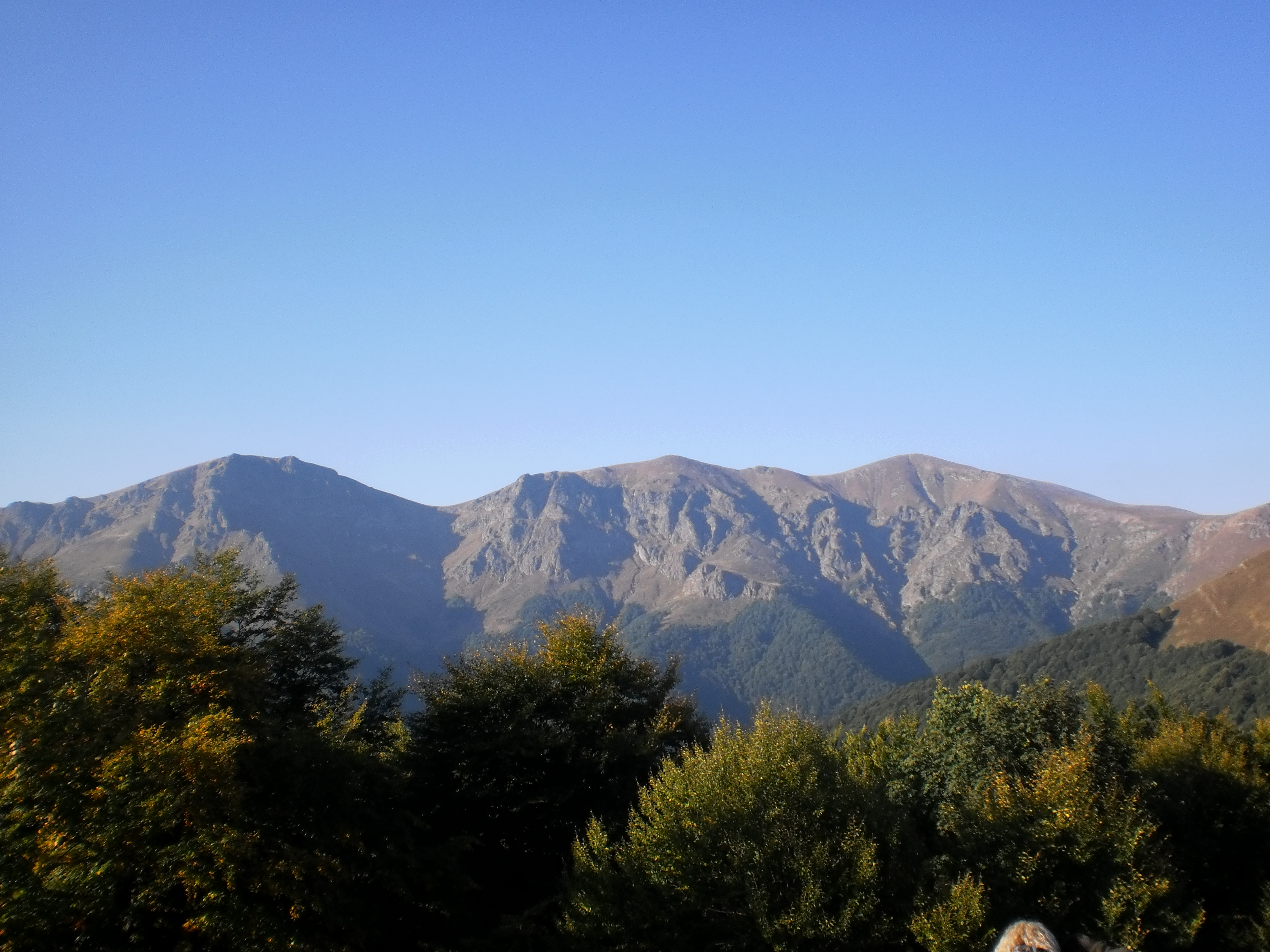 Massif "Triglav" (Three-heads) in Central Balkan Mountains (Stara Planina), Bulgaria